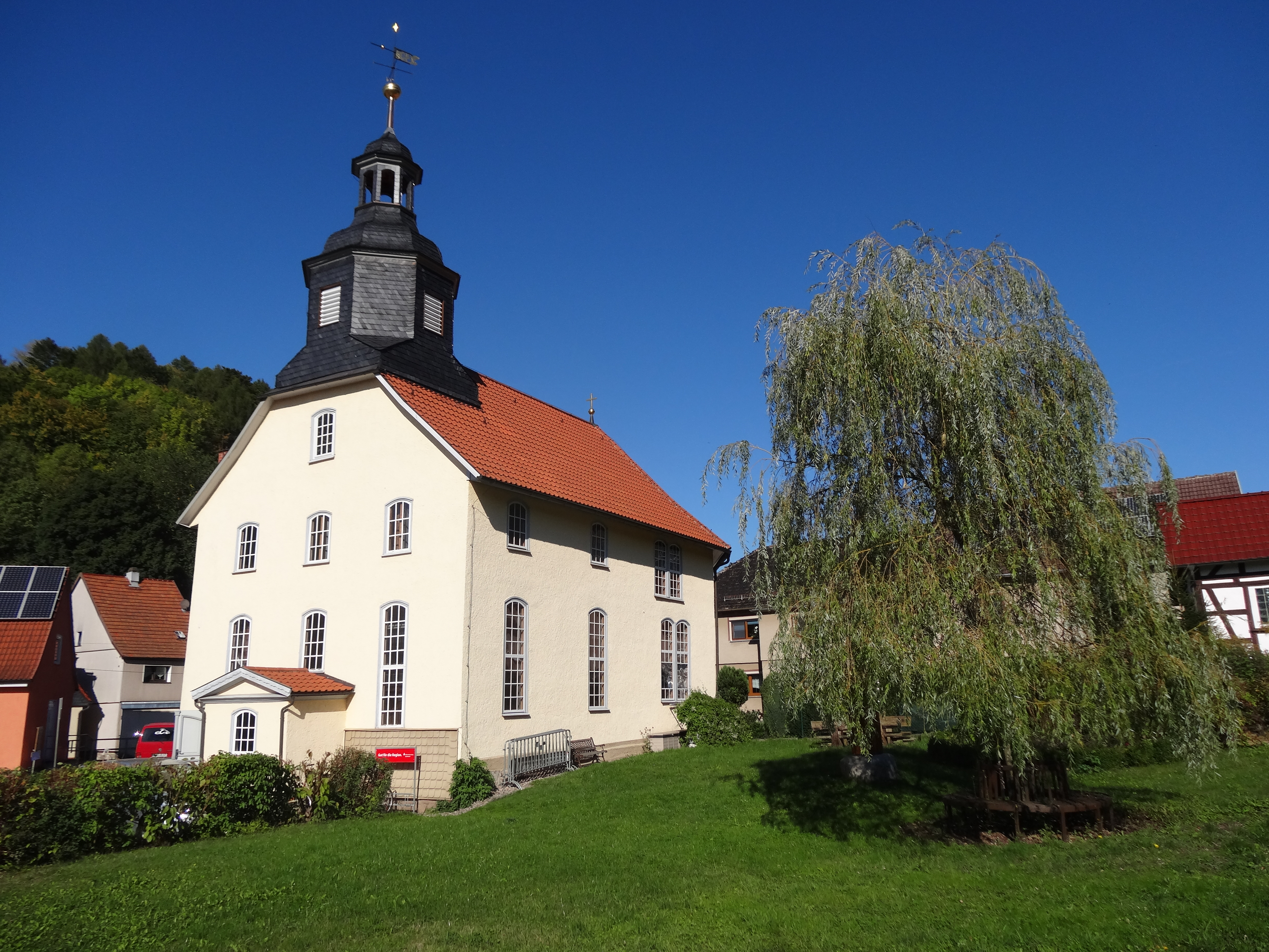 Church in Asbach (Schmalkalden), Thuringia, Germany